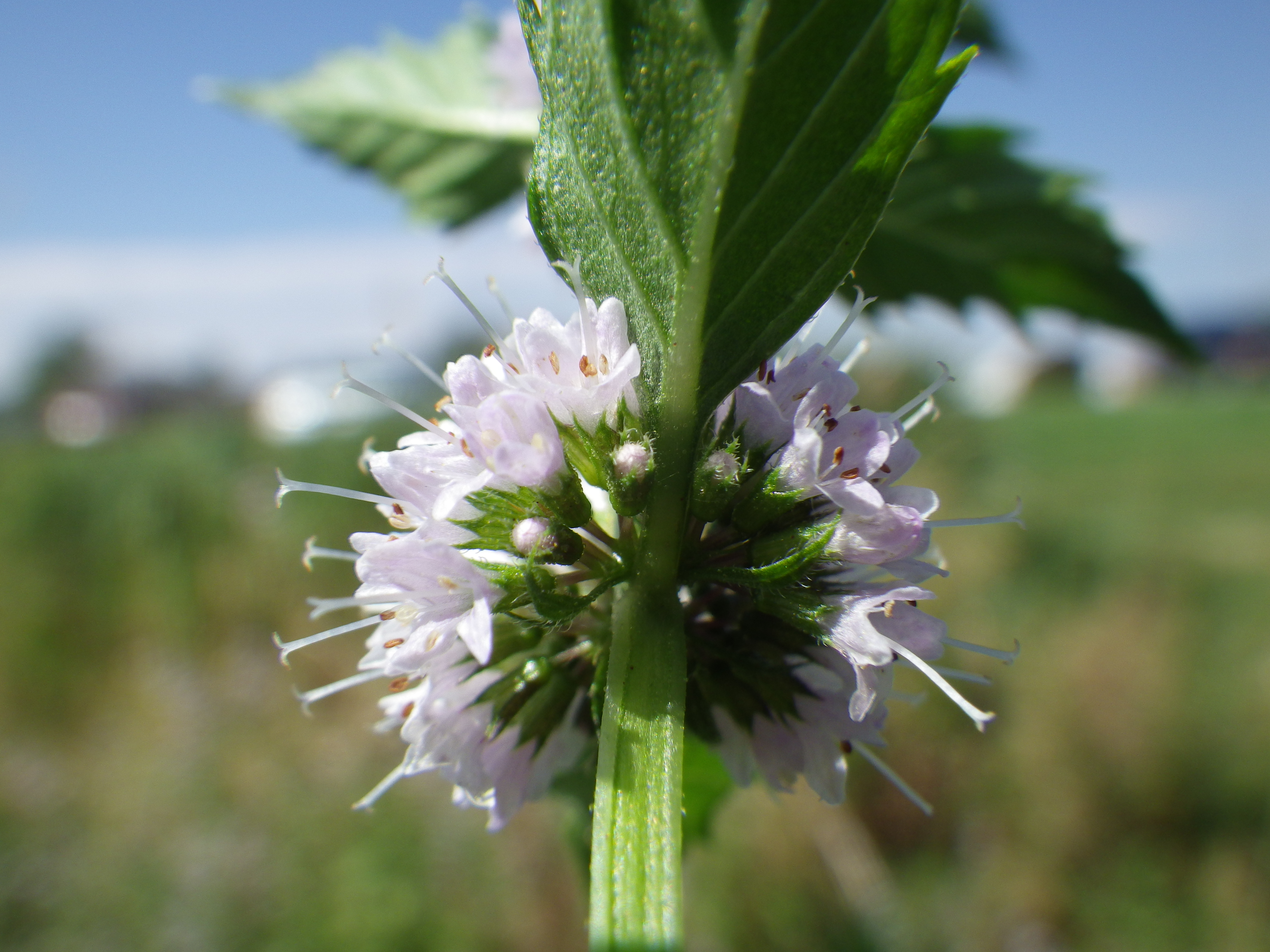 A common mint and seemingly a good colonizer of wetlands at lower elevations in this area of southwestern Montana.